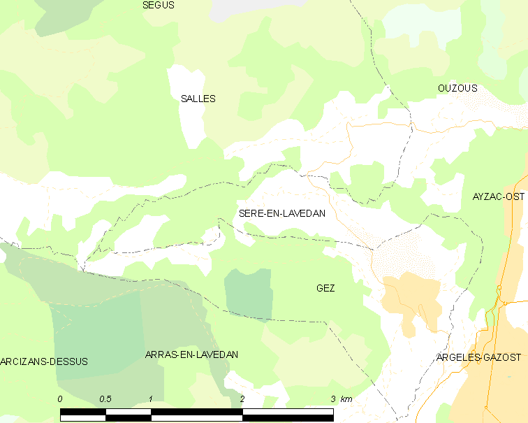 Map of French municipality